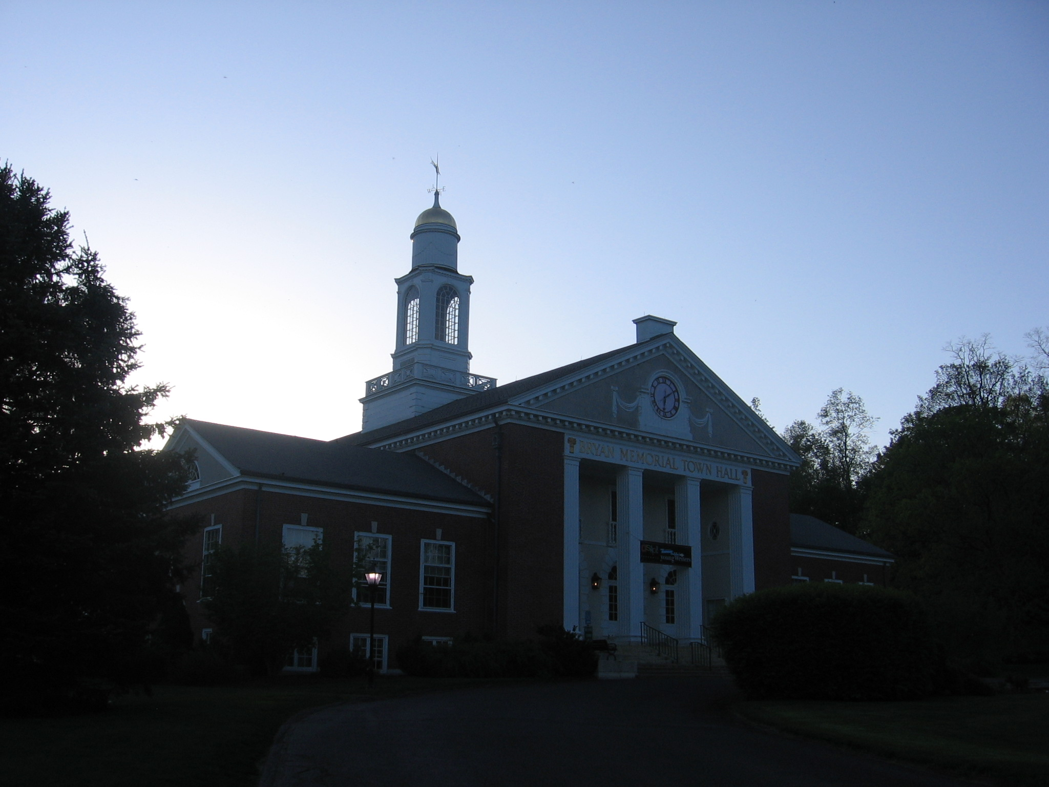 The town hall in Washington, Connecticut, USA.